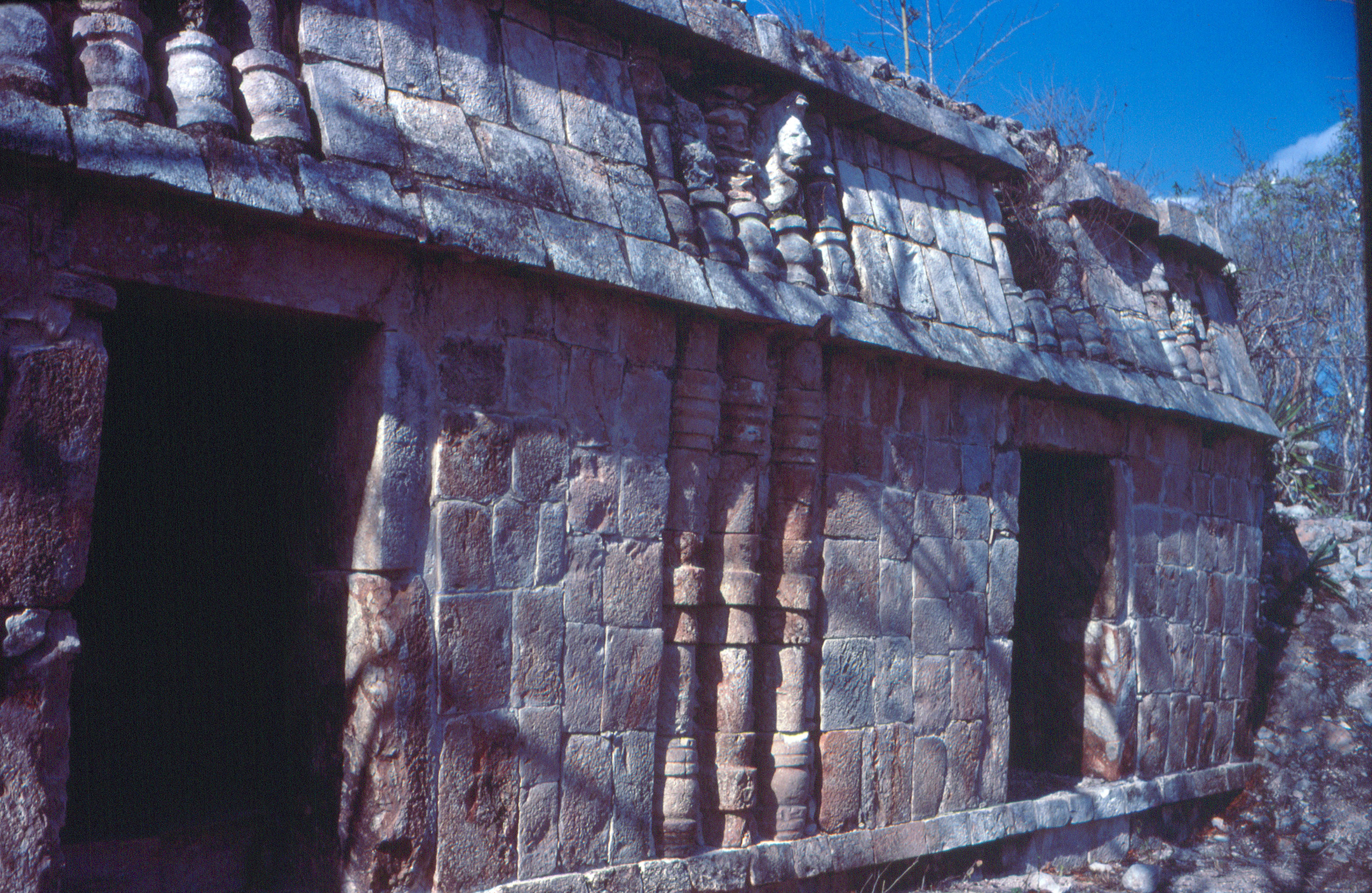 Sayil, Yucatan, Mexico: hill group